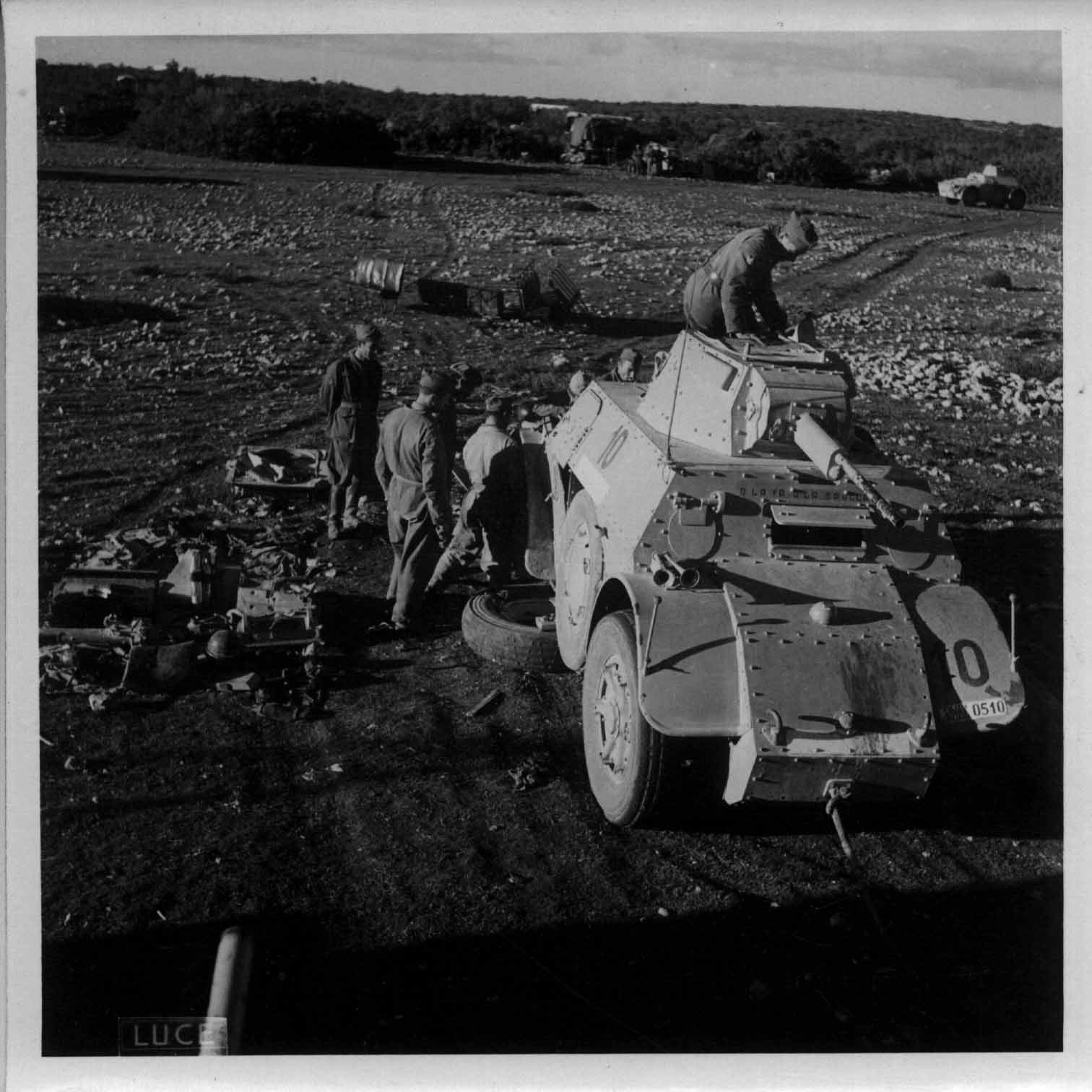 Italians repairing armored vehicle (East Africa - 1941)